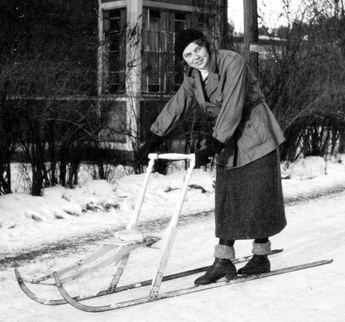 Kicksleds